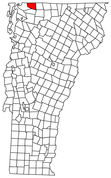 Map of Vermont towns with Franklin highlighted